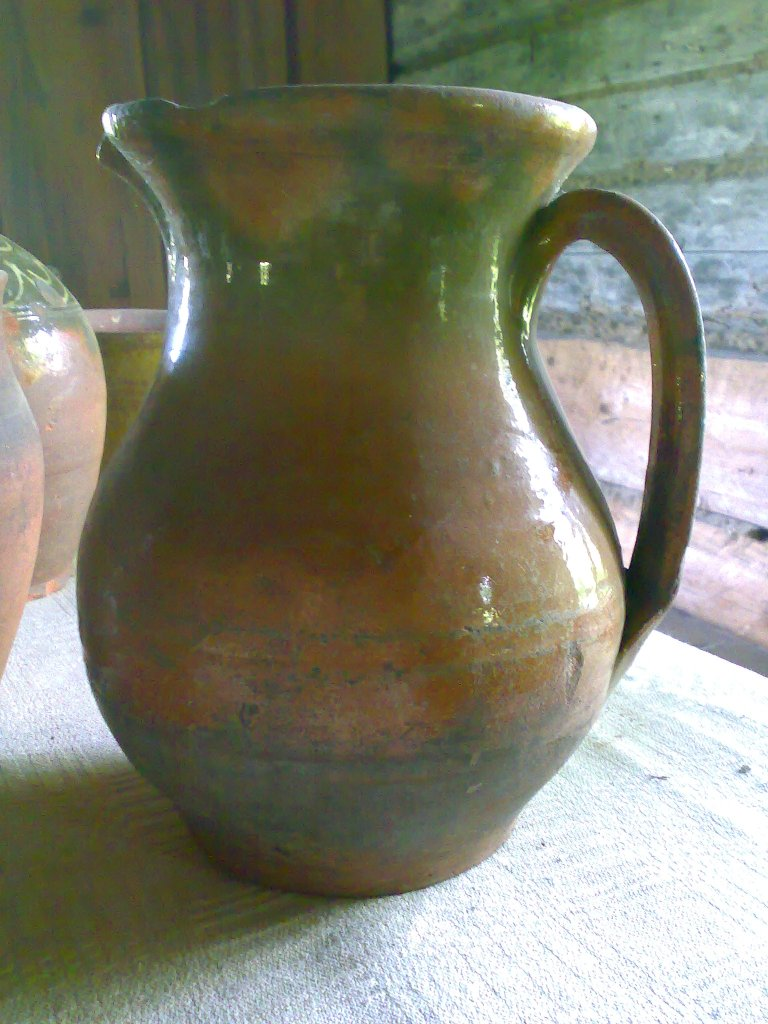 Latgale pottery.